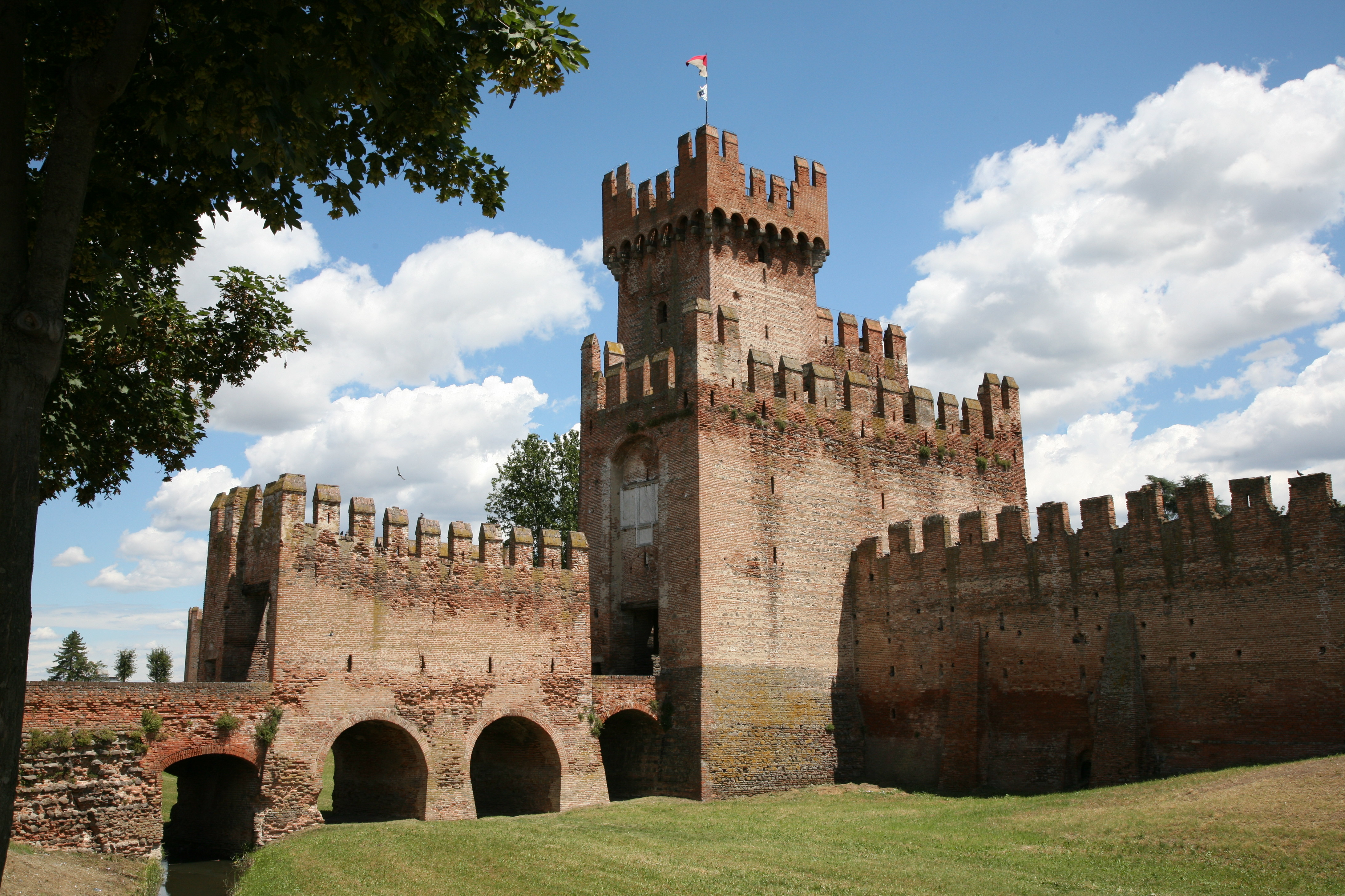 City wall of the town Montagnana. The west gate.